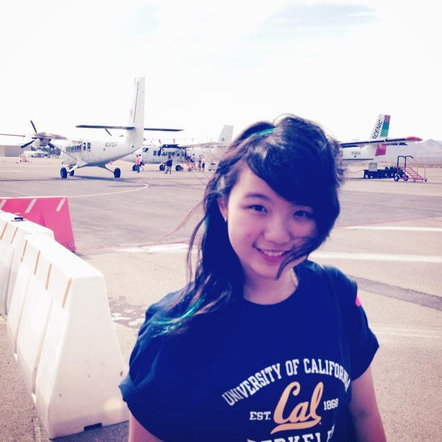 Profile